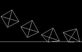 This is a screen capture animation from the SPARTA hardware physical modeling system. Author = Benjamin Bishop